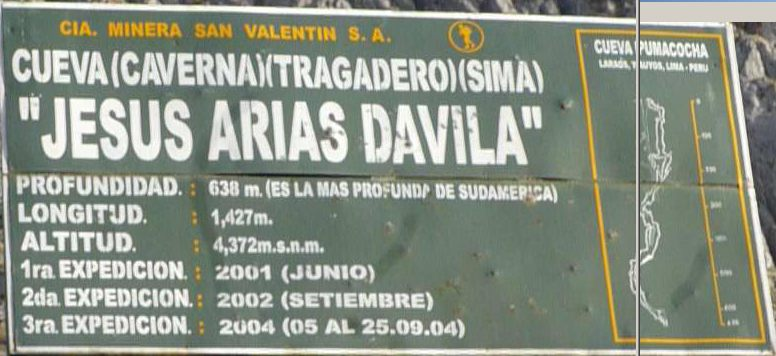 pumaocha cavern (aka sima, tragedero, or cueva pumacocha right near lake pumacocha